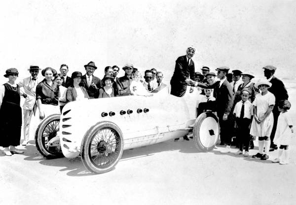 Sig (Sigurd O.) Haugdahl (1891-1970) shaking hands with Mayor Guy S. Bailey of Daytona Beach, Florida. The Wisconsin Special was the car Haugdahl drove to become the first man to reach 180 mph on Daytona Beach April 7, 1922.